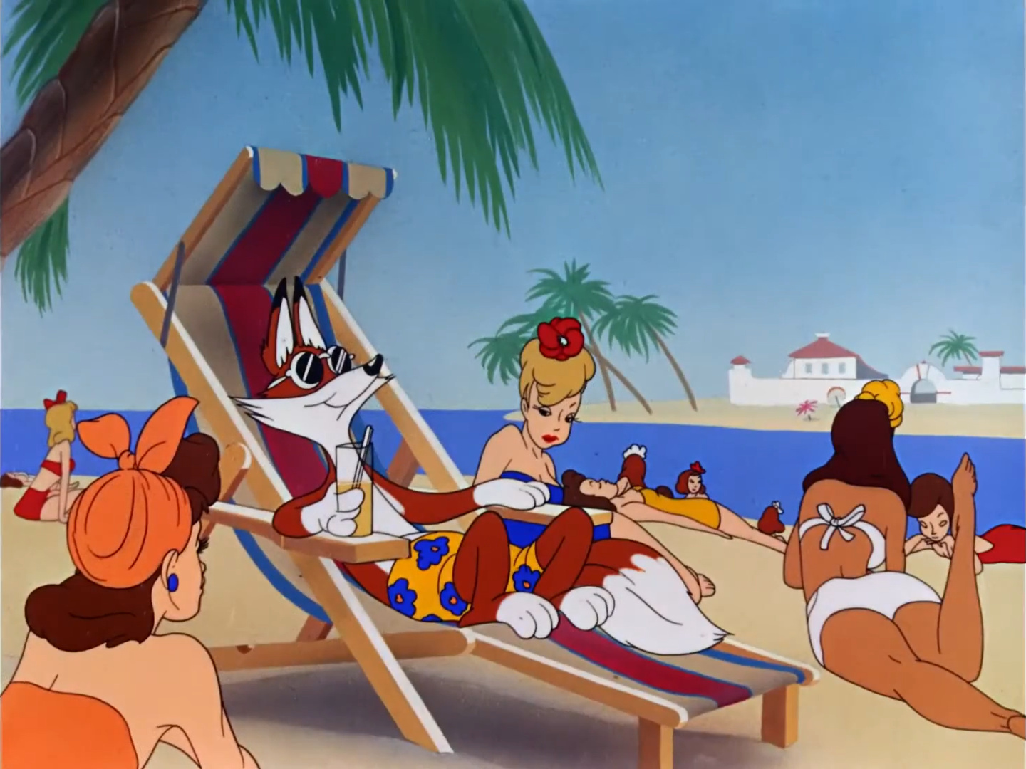 A screenshot of the American traditional animated short film Fox Pop in the Merrie Melodies series. This depicts a fox is sitting on his chair, with a group of swimsuit-clad women somewhere at the beach of Miami during visualization while he is hearing an advertisement on the radio.